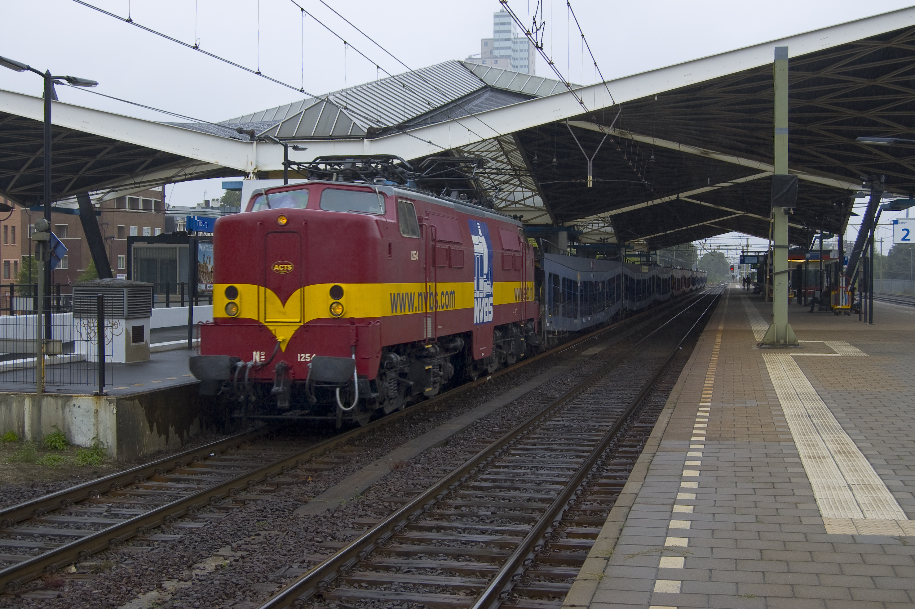 Dutch EETC engine 1254 in new colors passes rainy Tilburg on 20th June 2011.